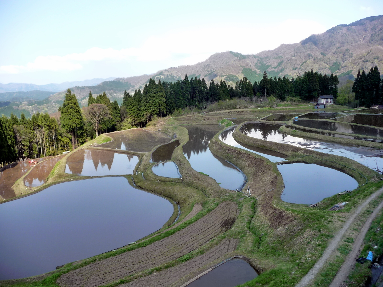 Rice Terraces of Ueyama in Ojiro, Kami Town, Hyogo prefecture, Japan in May